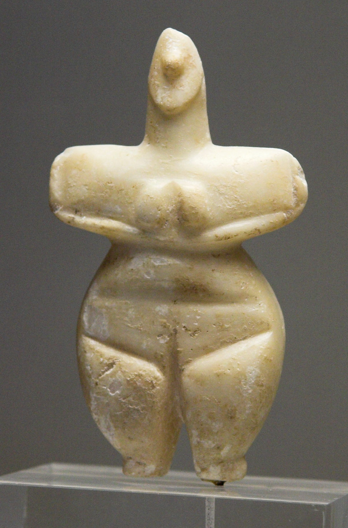 Female figurine, marble, Thessaly, 5300-3300 BC. National Archaeological Museum of Athens 8772.